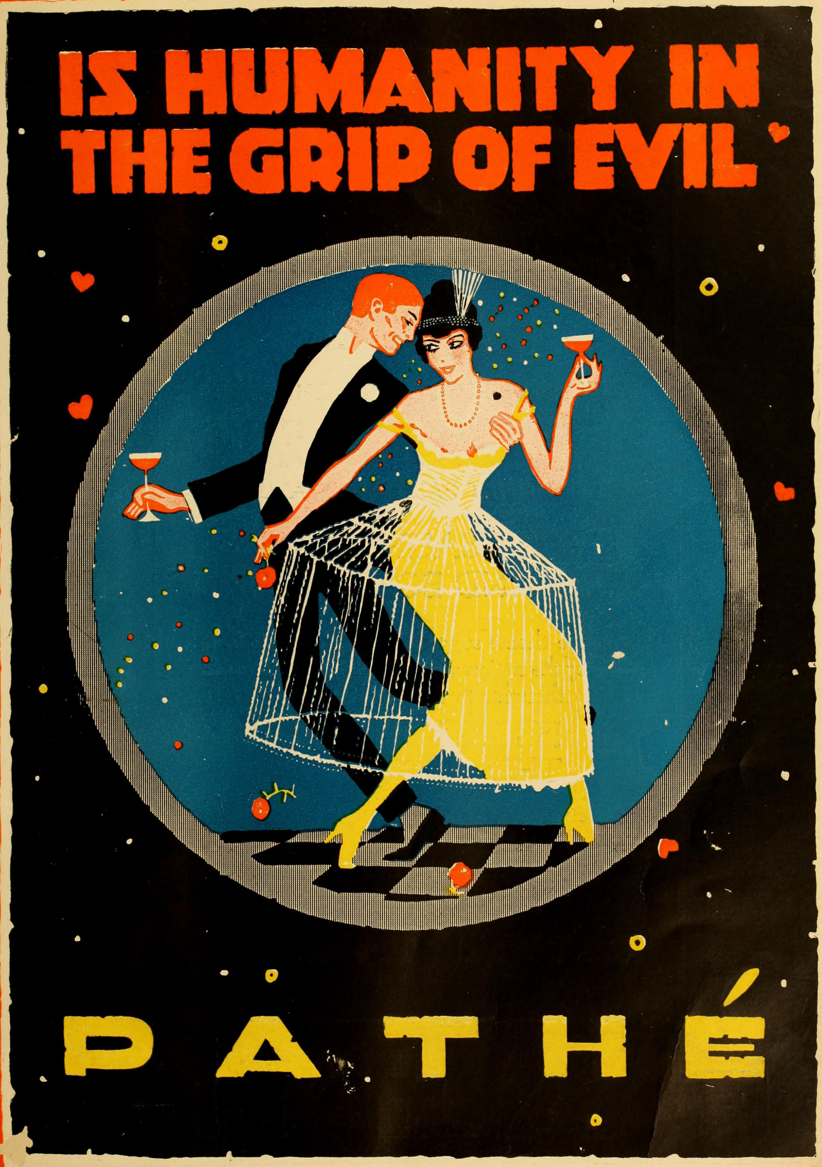 Advertisement in The Moving Picture World for the American film serial The Grip of Evil (1916).